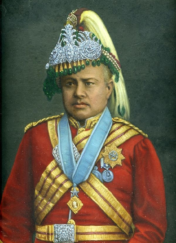 Prime Minister Ranoddip Singh Kunwar (1825-1885) and Sri Tin Maharaja (King) of Kaski and Lamjung